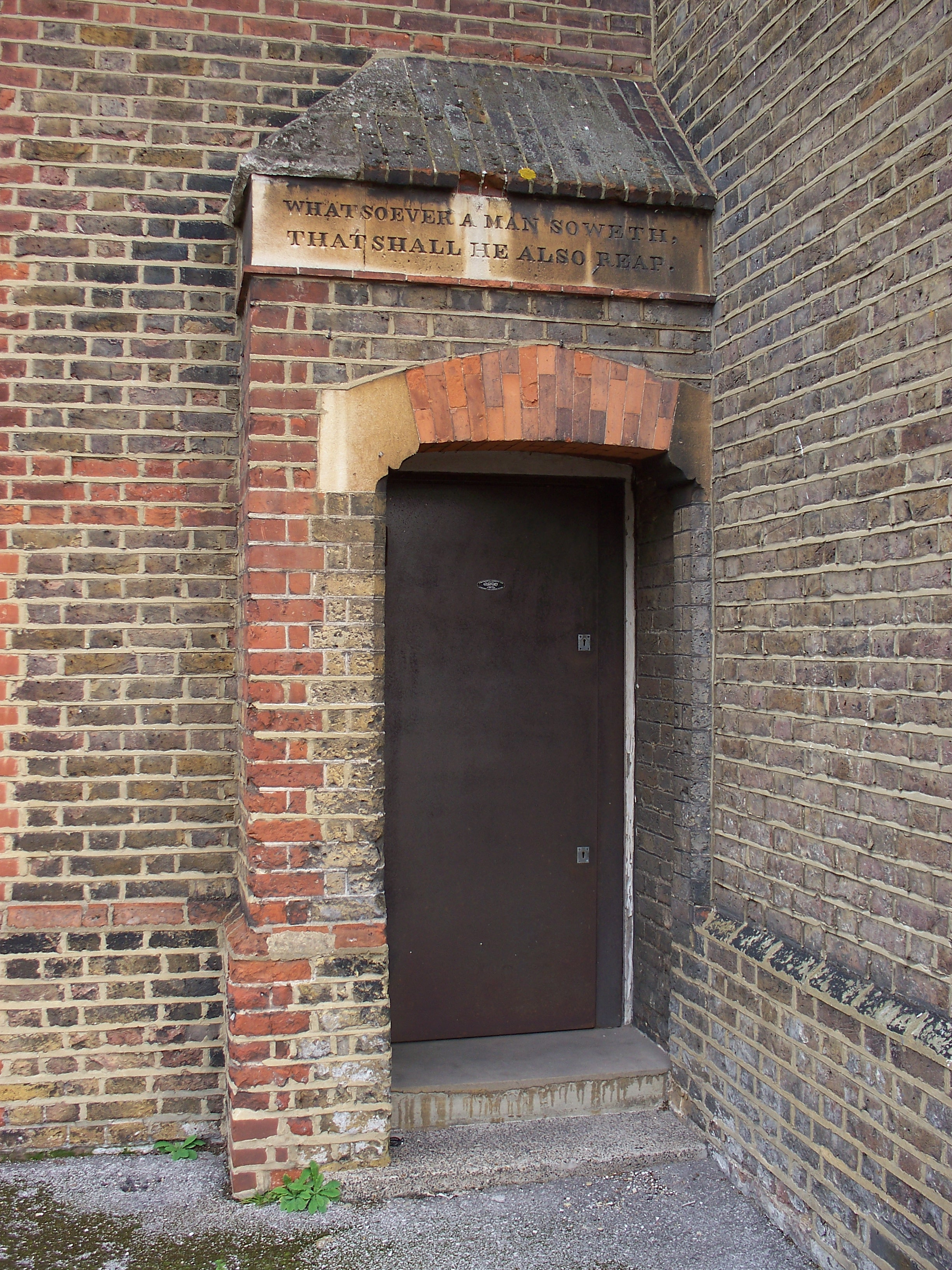 Entrance to the Bruce Castle Extension (formerly the Hill School)